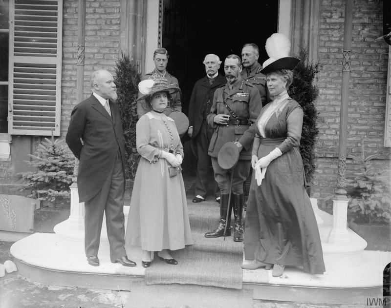 The Royal Visits To the Western Front, 1914-1918 King George V and Queen Mary, President of France Raymond Poincaré and Madame Henriette Poincare, Edward, Prince of Wales, Sir Douglas Haig and Sir Francis Bertie, on the steps of the British Officers' Club at Abbeville, 10 July 1917.